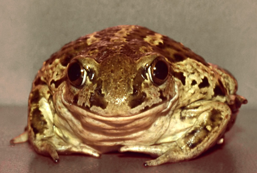 Frontside of a female Common Spadefoot Toad, Pelobates fuscus.